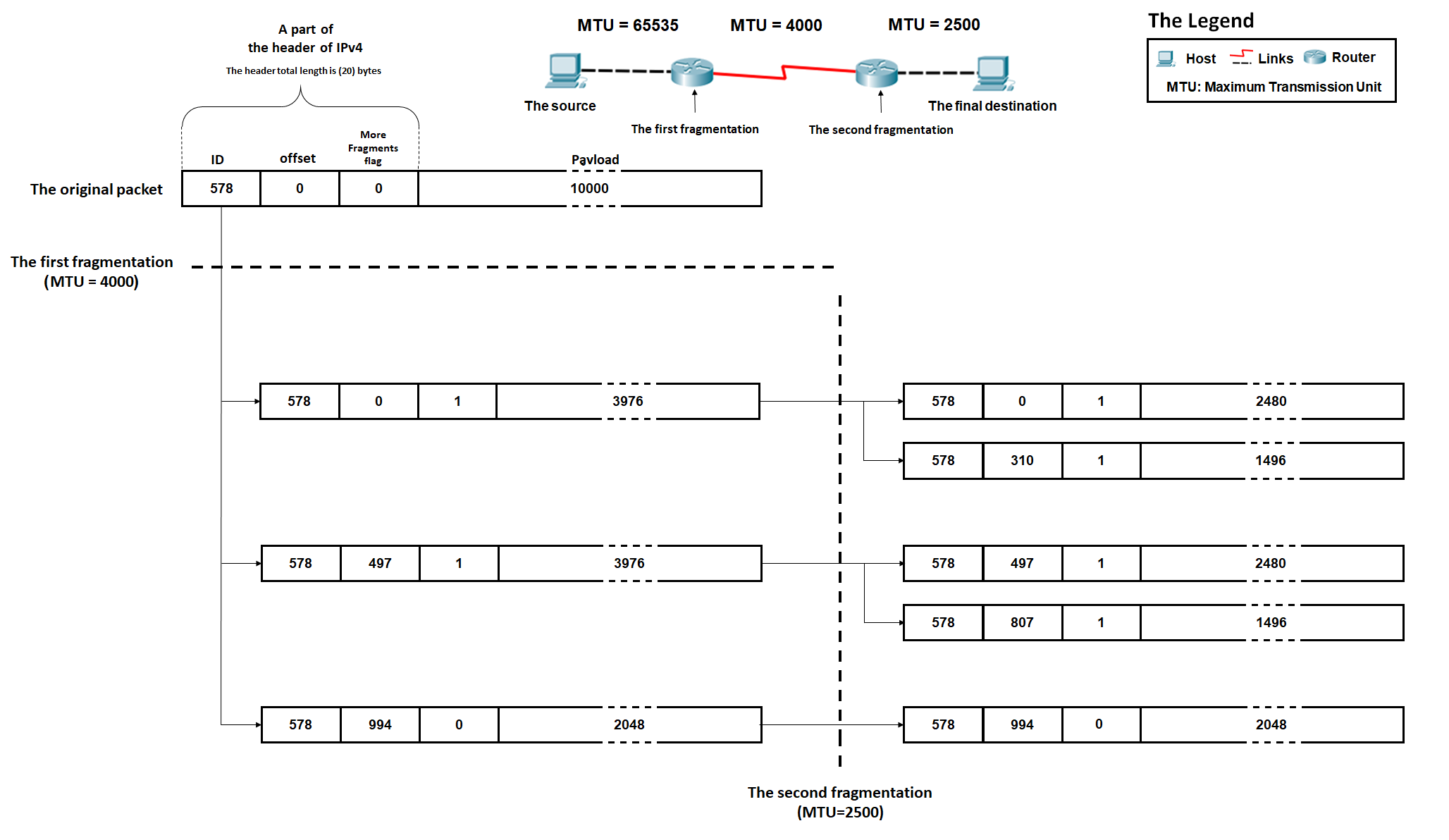 An example of IPv4 multi-fragmentation. The fragmentation takes place in two level. In the first one, The maximum transmission unit is 4000 bytes, and the second it is 2,500 bytes.